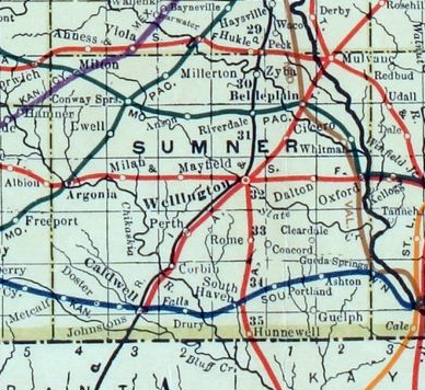 Stouffer's Railroad Map of Kansas, 1915-1918, Sumner County.